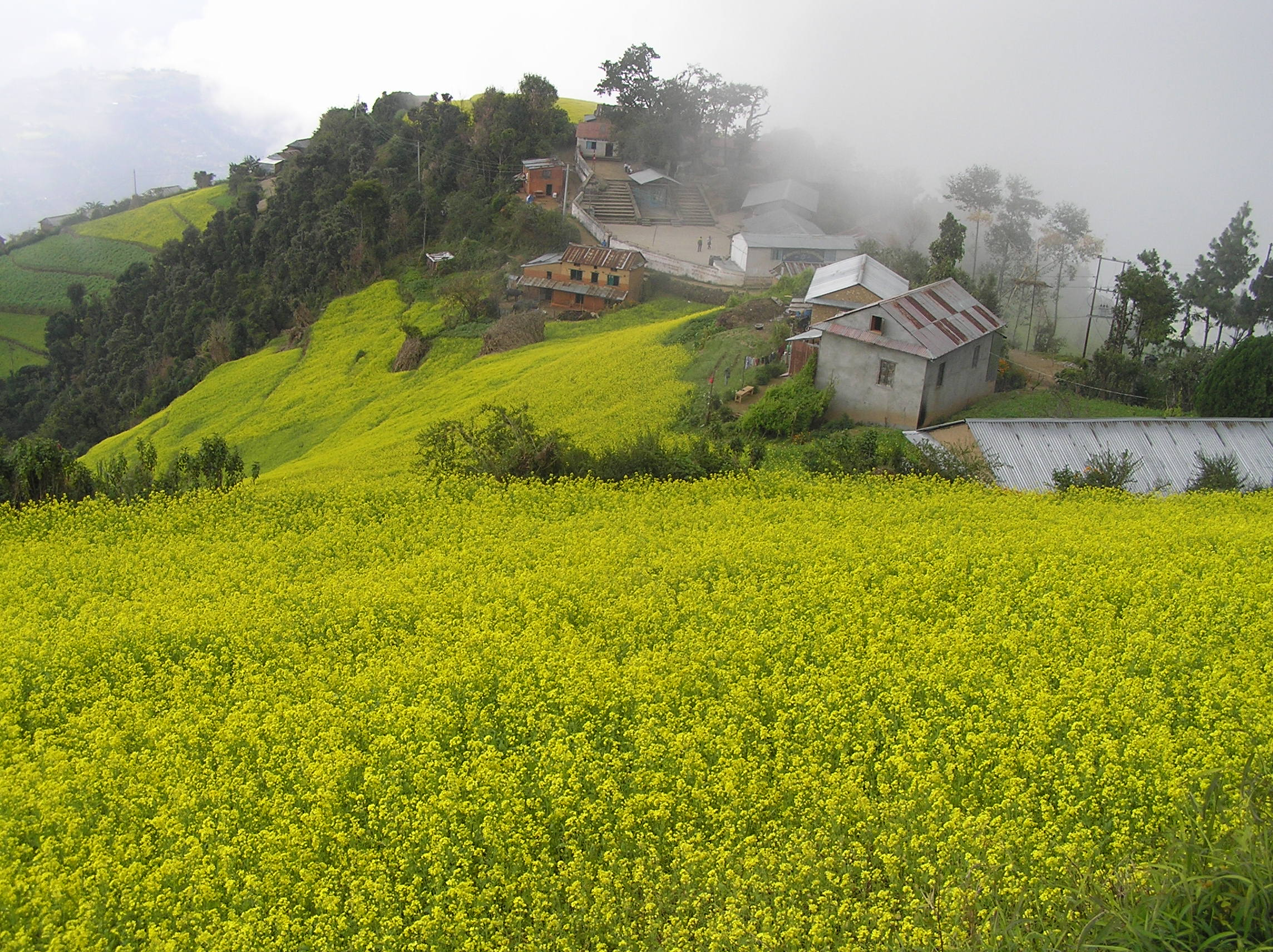 Mustard Field of Dalchoki